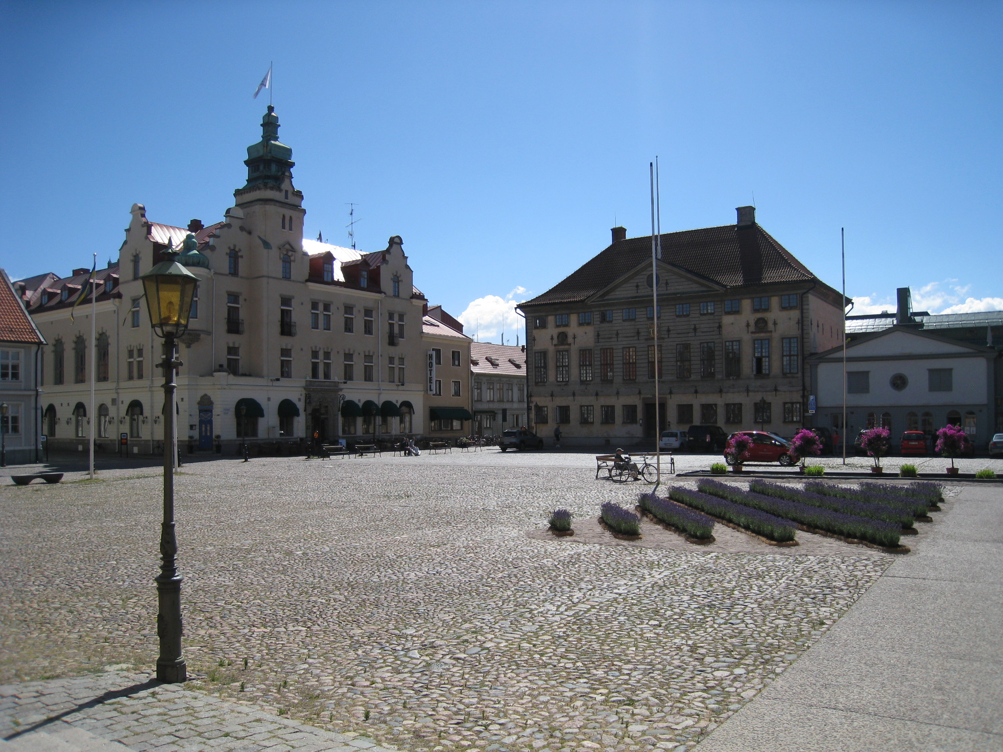 Kalmar Town Hall at Stortorget 2, and Calmar Stadshotell to the left at Stortorget 14, Kvarnholmen, Kalmar, Sweden. The town hall in Kalmar was built in 1684-1690. It is probably built after the head of the fortification works in Kalmar, M GH Craelius. It is built in the Dutch style that distinguishes many of the city's stone's castle houses.To the left is Calmar Stadshotell, where the current building was completed in 1906.